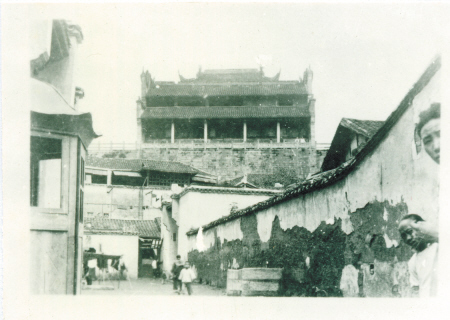 Tianxin Pavilion in the late Qing dynasty (1644–1912). The photo shows that the Chinese people had a pigtail. Tianxin Pavilion is a Chinese pavilion in downtown Changsha, Hunan, China. It is adjacent to Changsha Bamboo Slips Museum and Baisha Well.